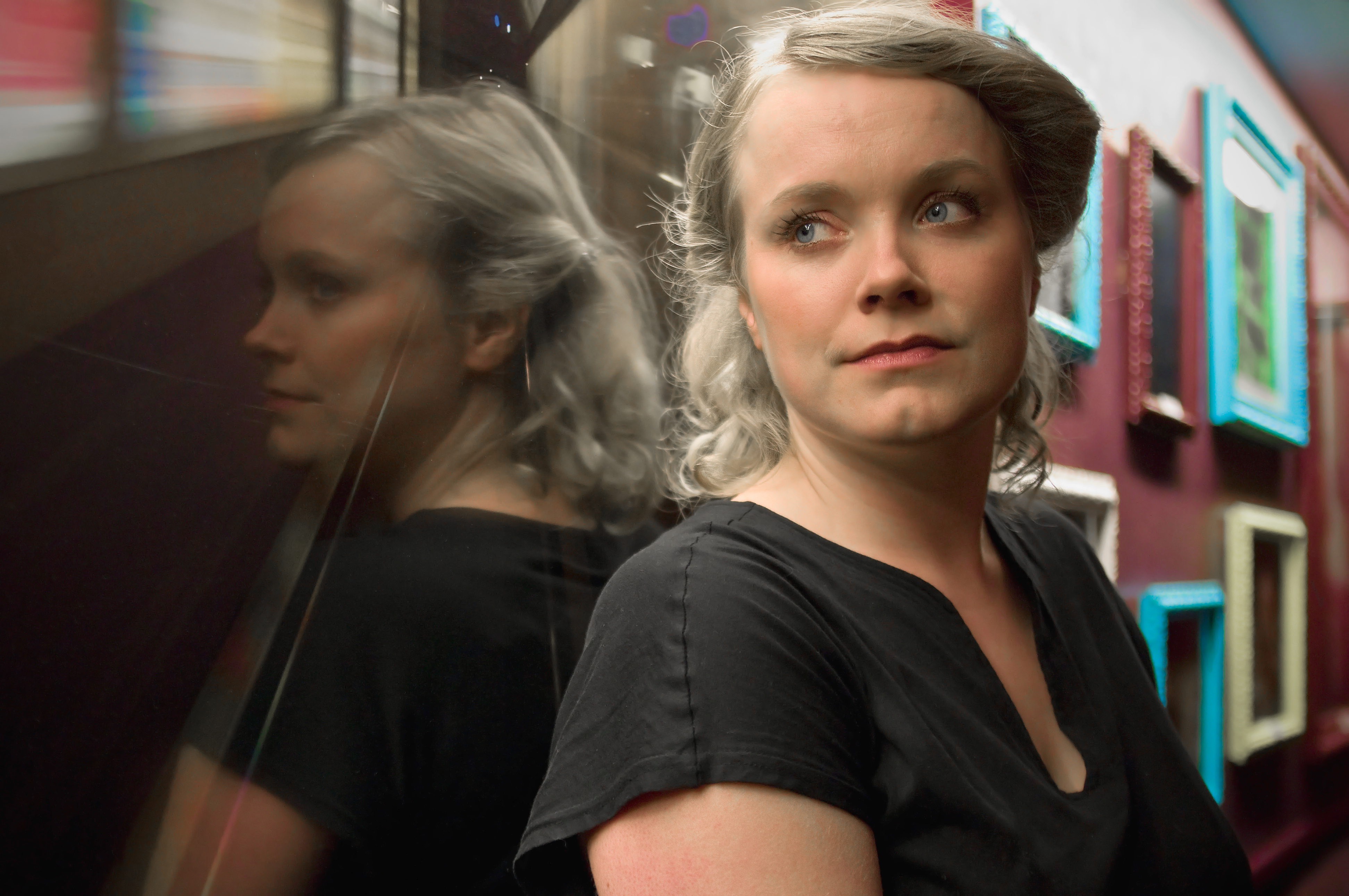 Norwegian singer-songwriter Ane Brun during an interview for in Paris, France, in 2008.